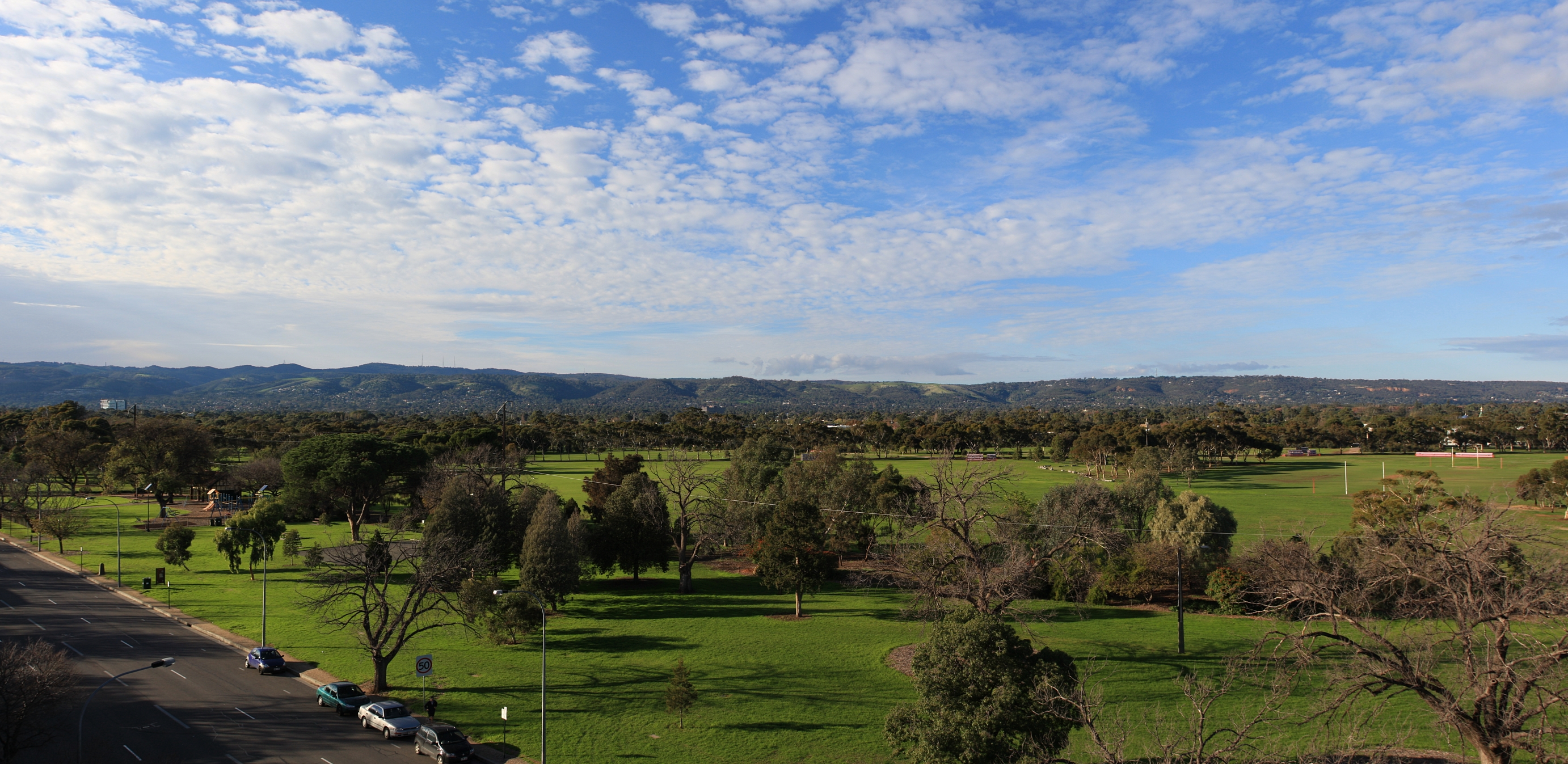 South Terrace Adelaide looking out to the Adelaide Hills from my hotel balcony on South Terrace in the morning